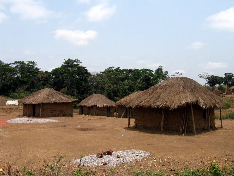 Typical Village (Quimbo) with thatched huts on the Luanda-Uíge overlandroad, Angola